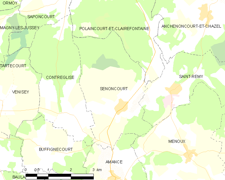 Map of French municipality